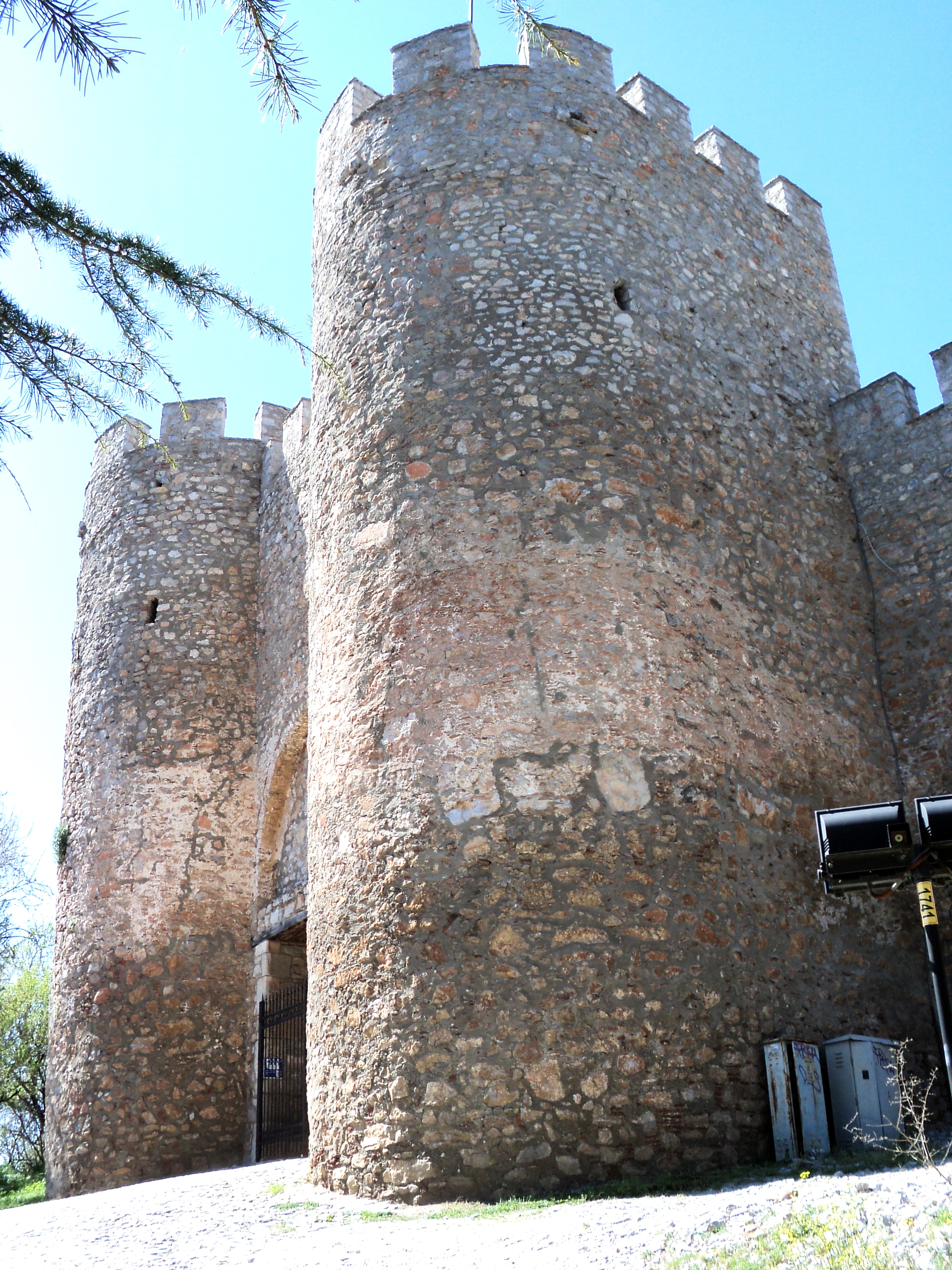 Gate of Ohrid Fortress (Ohrid, Macedonia)